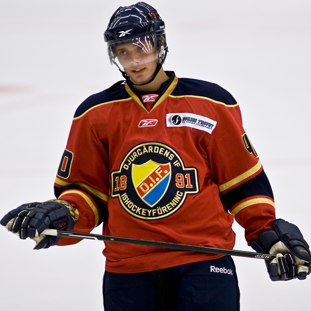 Jacob Josefson of Djurgårdens IF during a Nordic Trophy game against Frölunda HC in Frölundaborg, Gothenburg, on August 11, 2009.